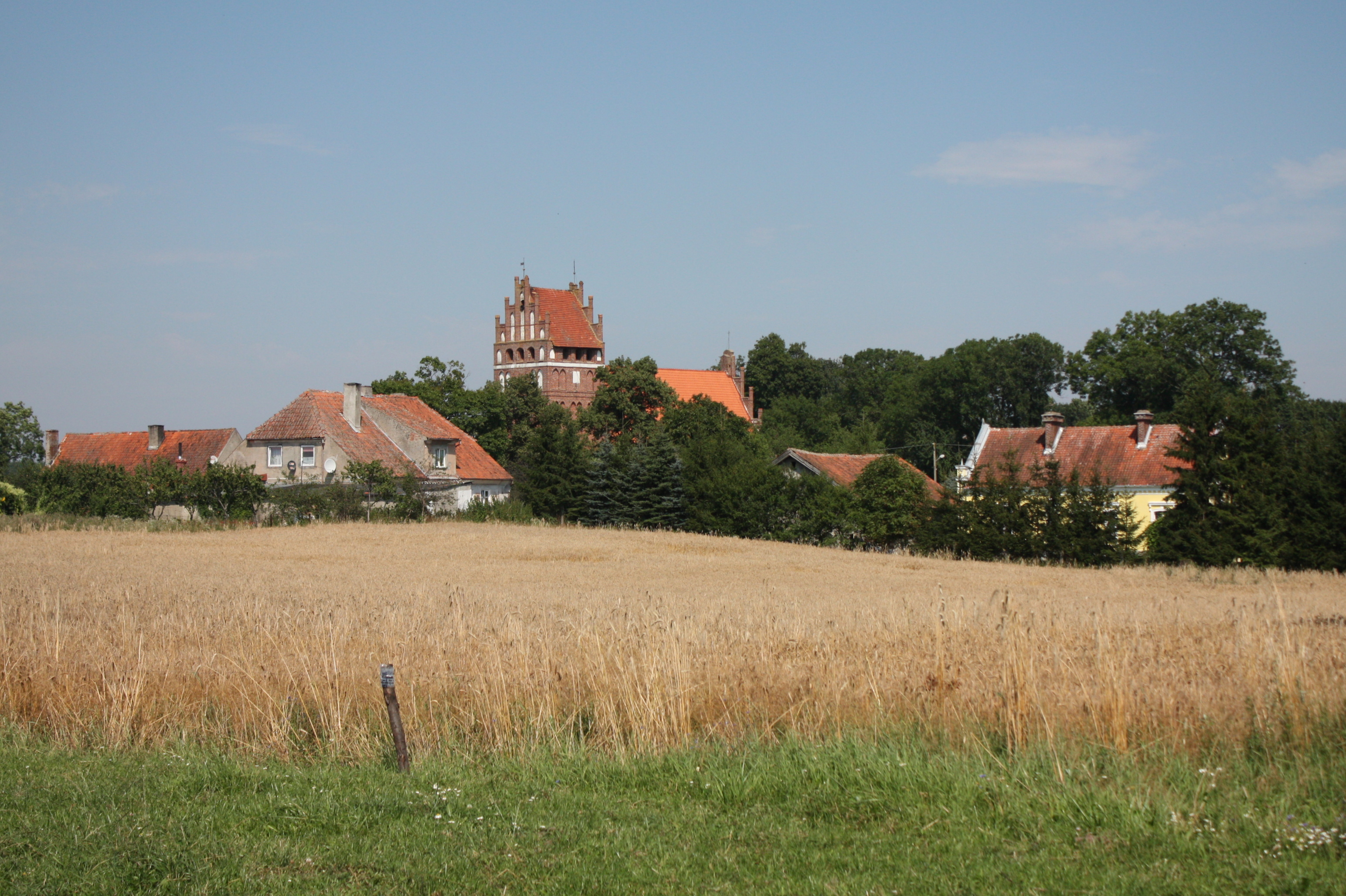 This photo of Warmian-Masurian Voivodeship was taken during Wikiexpedition 2012 set up by Wikimedia Polska Association. You can see all photographs in category Wikiekspedycja 2012. The making of this document was supported by Wikimedia Polska.